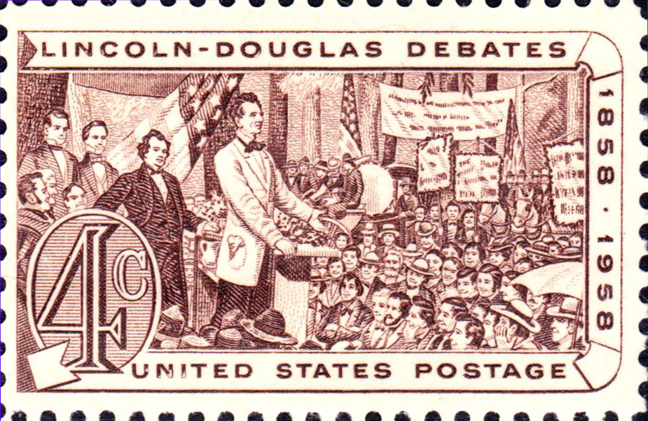 Lincoln-Douglas Debates, 1958 American Civil War commemorative issue